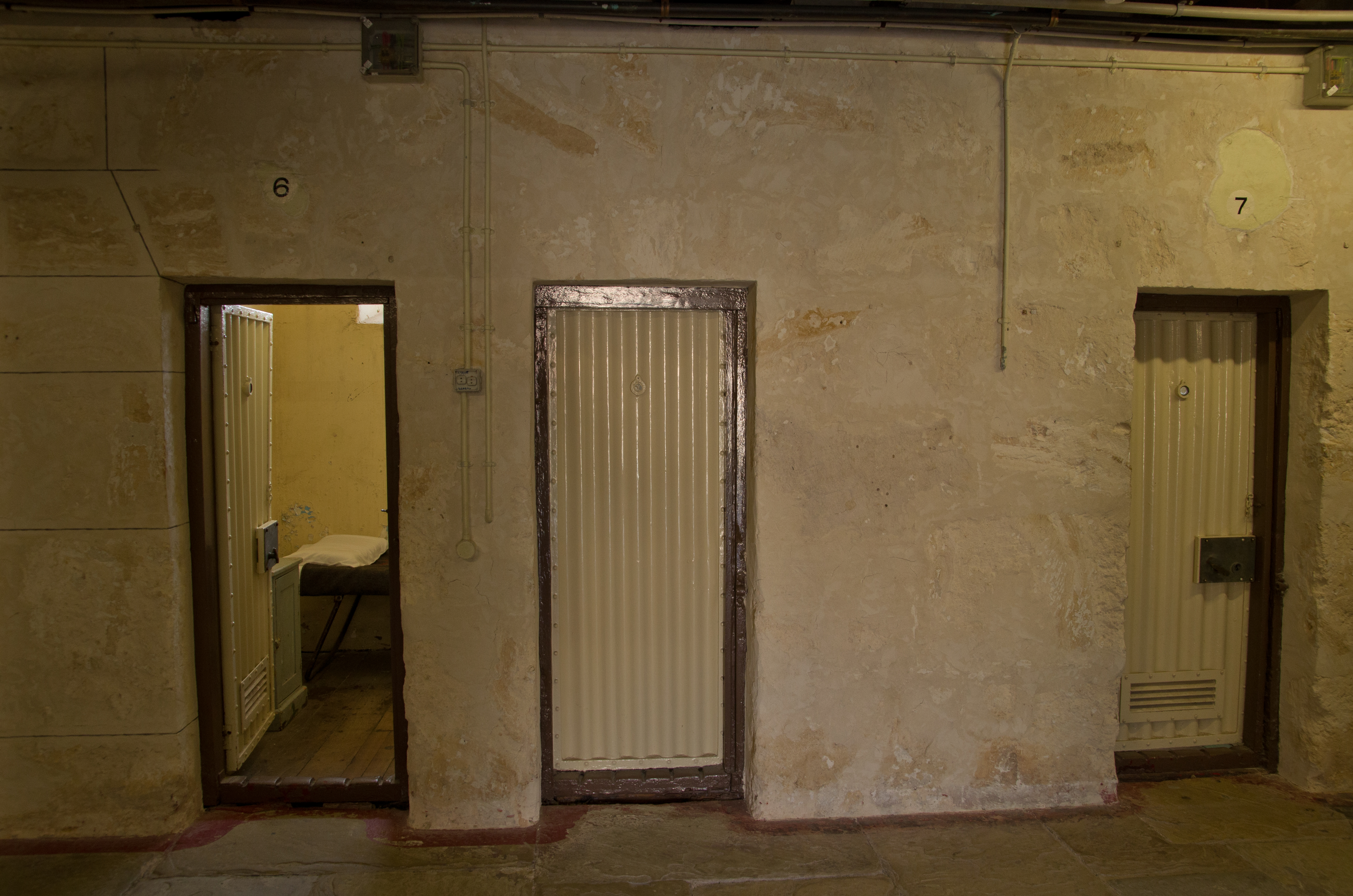 Fremantle Prison cells 6 & 7 with the middle section now part of cell 6